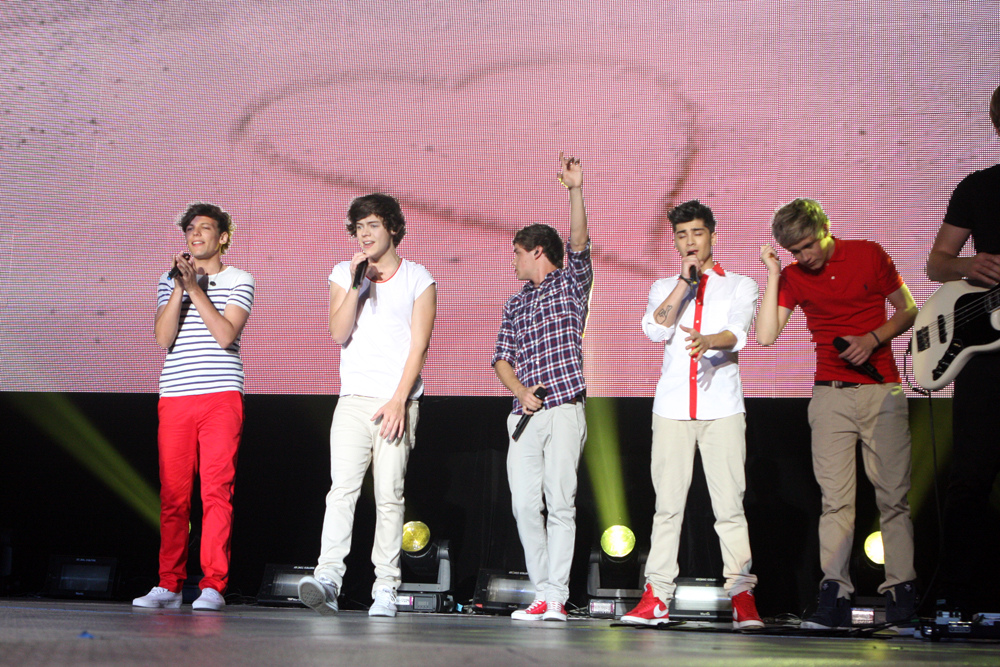 One Direction performs at Hordern Pavilion, Moore Park, Sydney, Australia